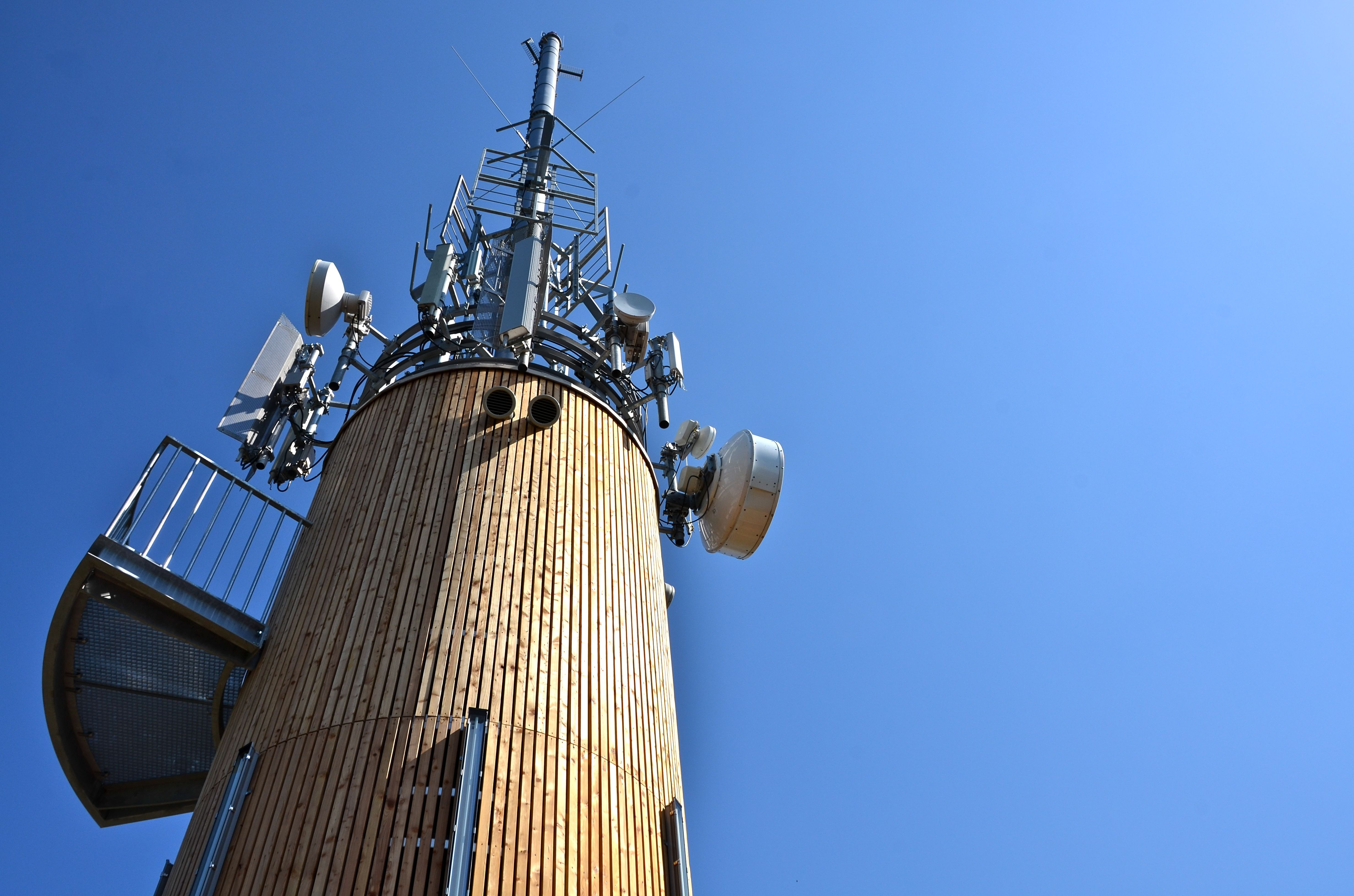 Communications mast on the new look-out tower on top of the Pyramid ballon (Pyramidenkogel), municipality Keutschach am See, district Klagenfurt Land, Carinthia / Austria / EU